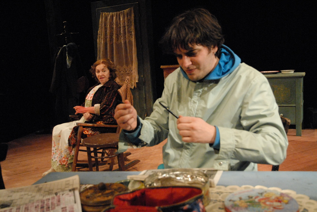 "The Beauty Queen of Leenane" by Martin McDonagh; directed by Boris Isaković, Drama of the SNT; Novi Sad, 2008/09; Marko Savić, Ksenija Martinov Pavlović Srpski (latinica): "Lepotica Linejina", Martina Mekdone u režiji Borisa Isakovića; Drama SNP-a, Novi Sad, 2008-2009; Marko Savić, Ksenija Martinov Pavlović Српски (ћирилица): "Лепотица Линејина", Мартина Мекдоне у режији Бориса Исаковића; Драма СНП-а, Нови Сад, 2008-2009; Марко Савић, Ксенија Мартинов Павловић